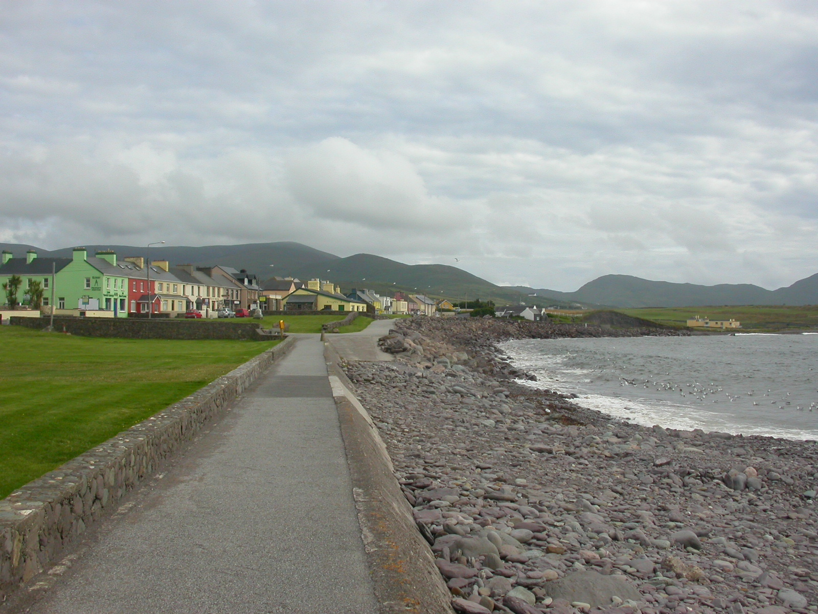 Waterville, Co. Kerry, Ireland - a view.